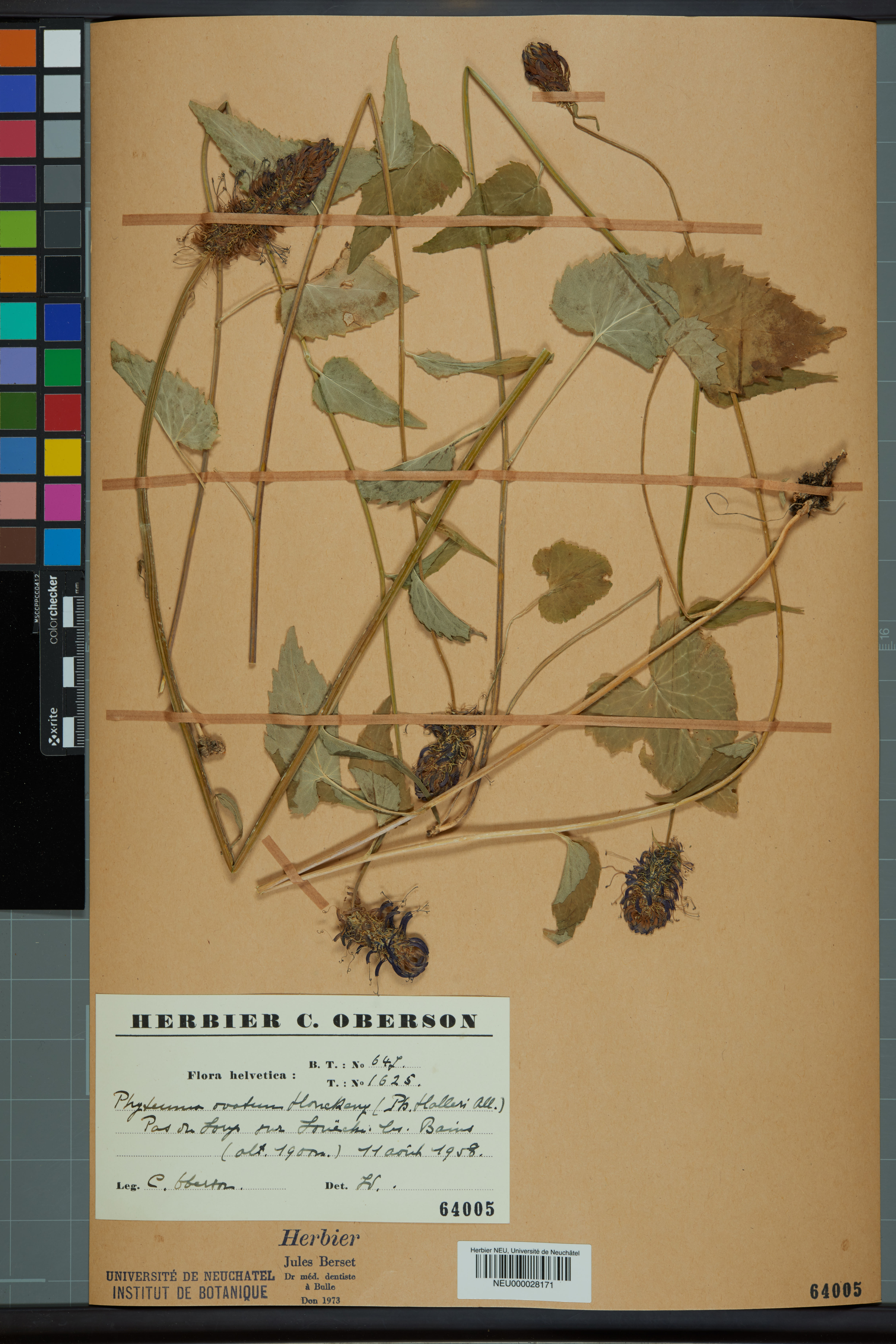 Dried pressed specimen of Phyteuma ovatum